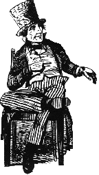 Brother Jonathan - personification of US (description from